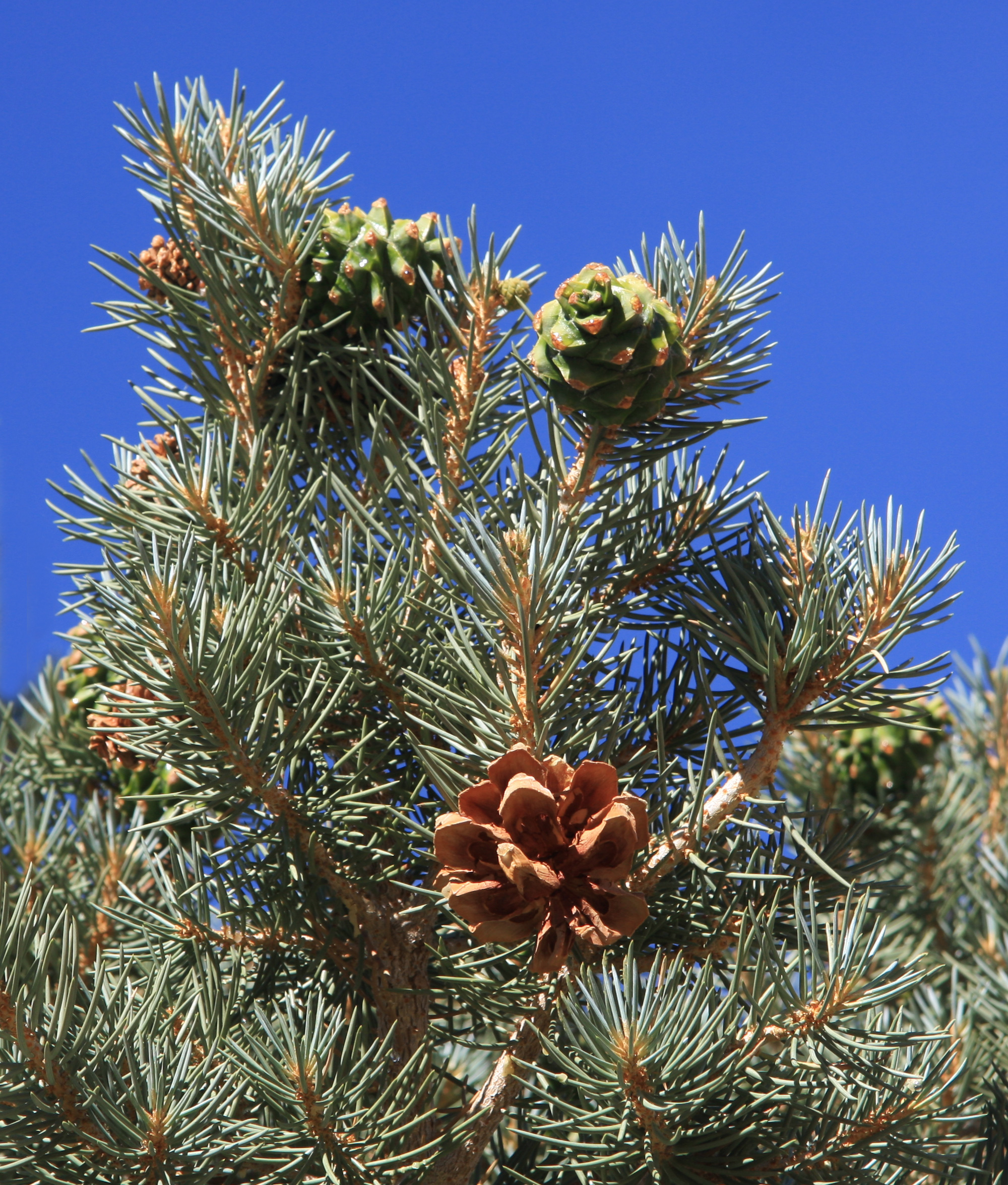 Pinyon pine (Pinus monophylla) two-year cone cycle. Fat green cones started last year and will mature this September; open, brown cones are left from last year, and the new ones are just starting below the branch tips. At 7000ft in Swall Meadows, Mono County, California.